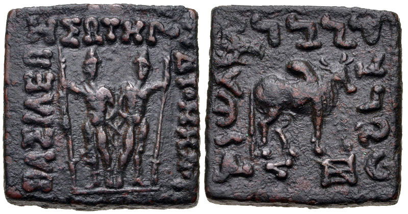 Diomedes square bilingual